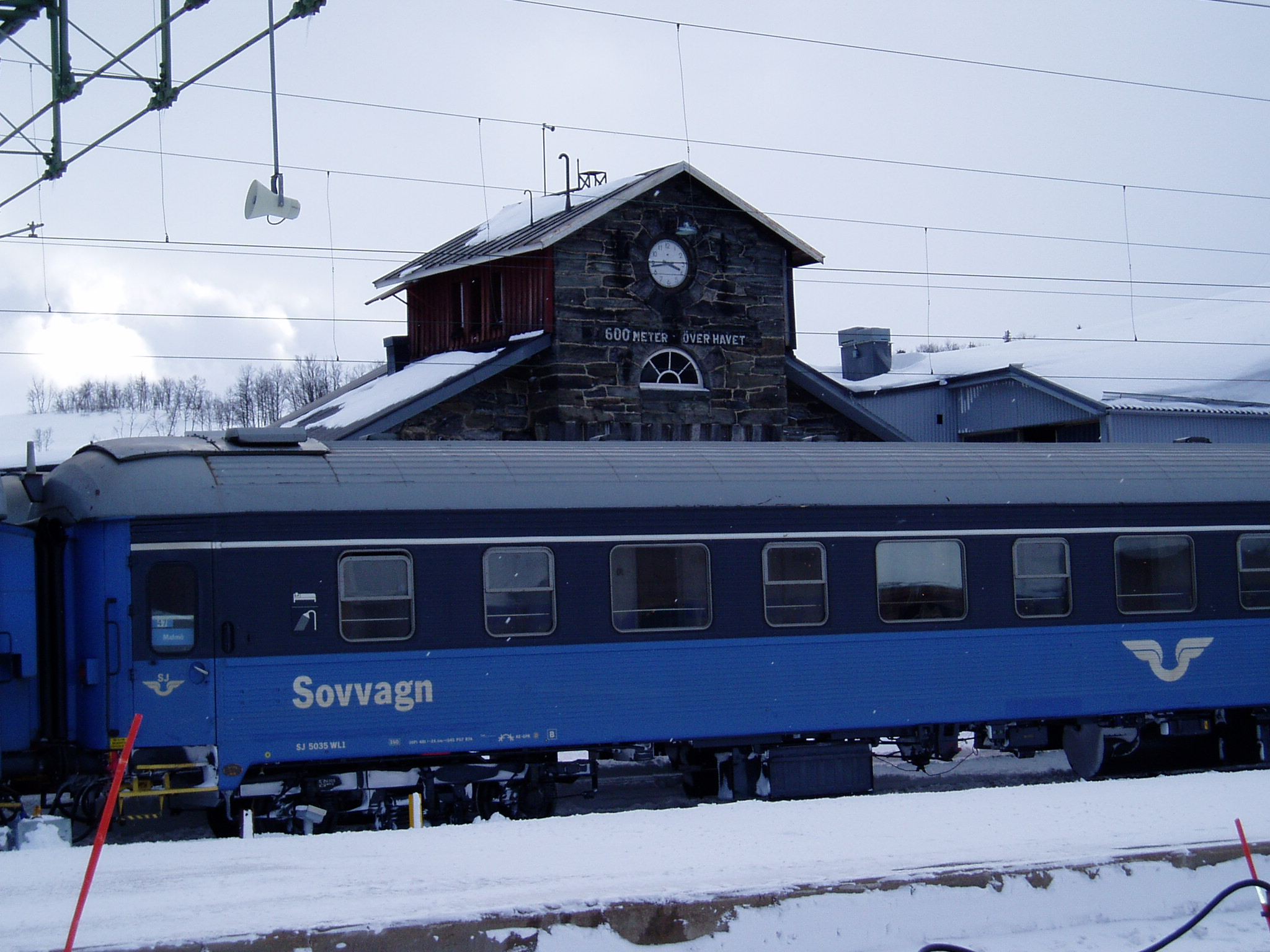 Storlien railway station